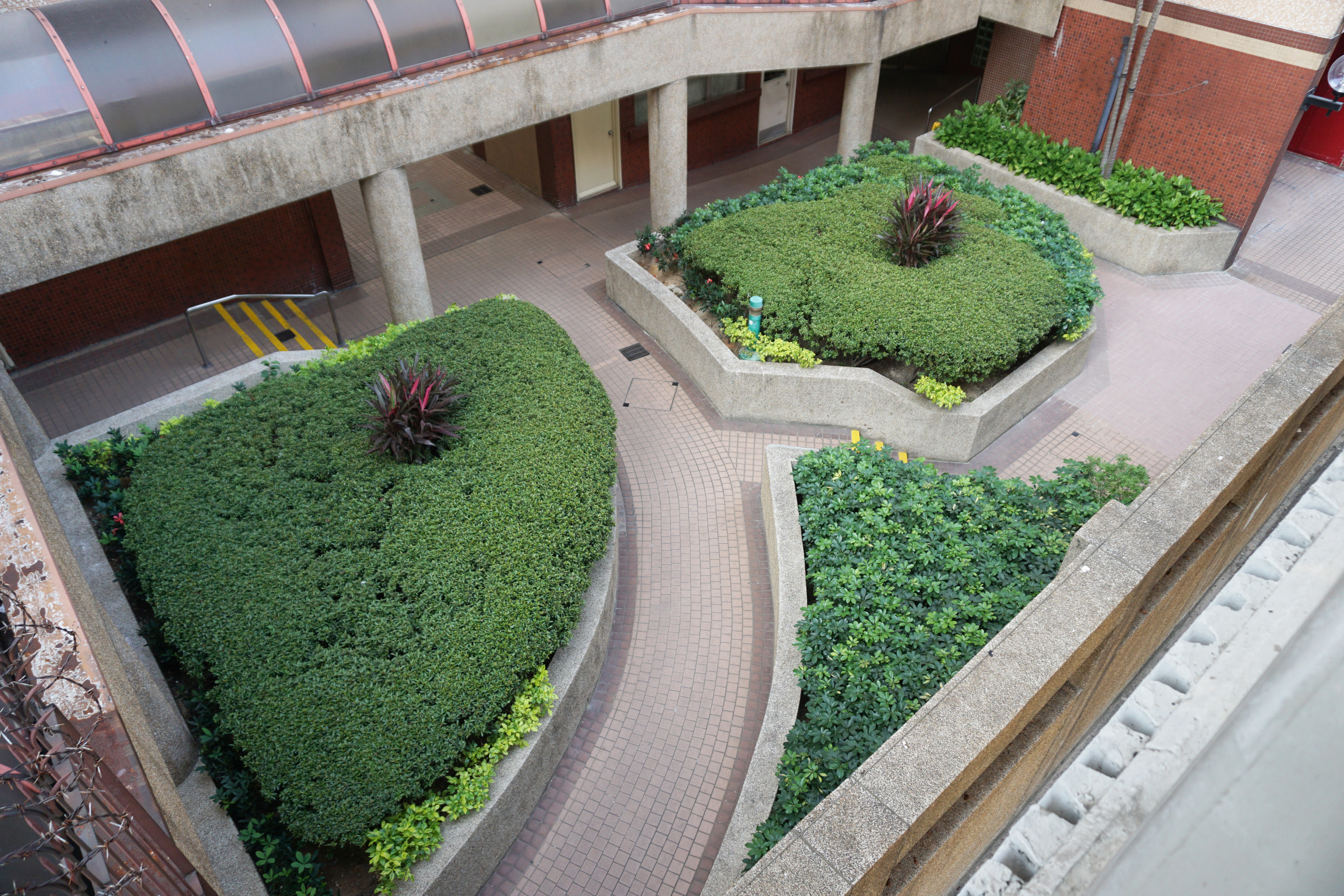 Yin Lai Court in Lai King, Hong Kong.